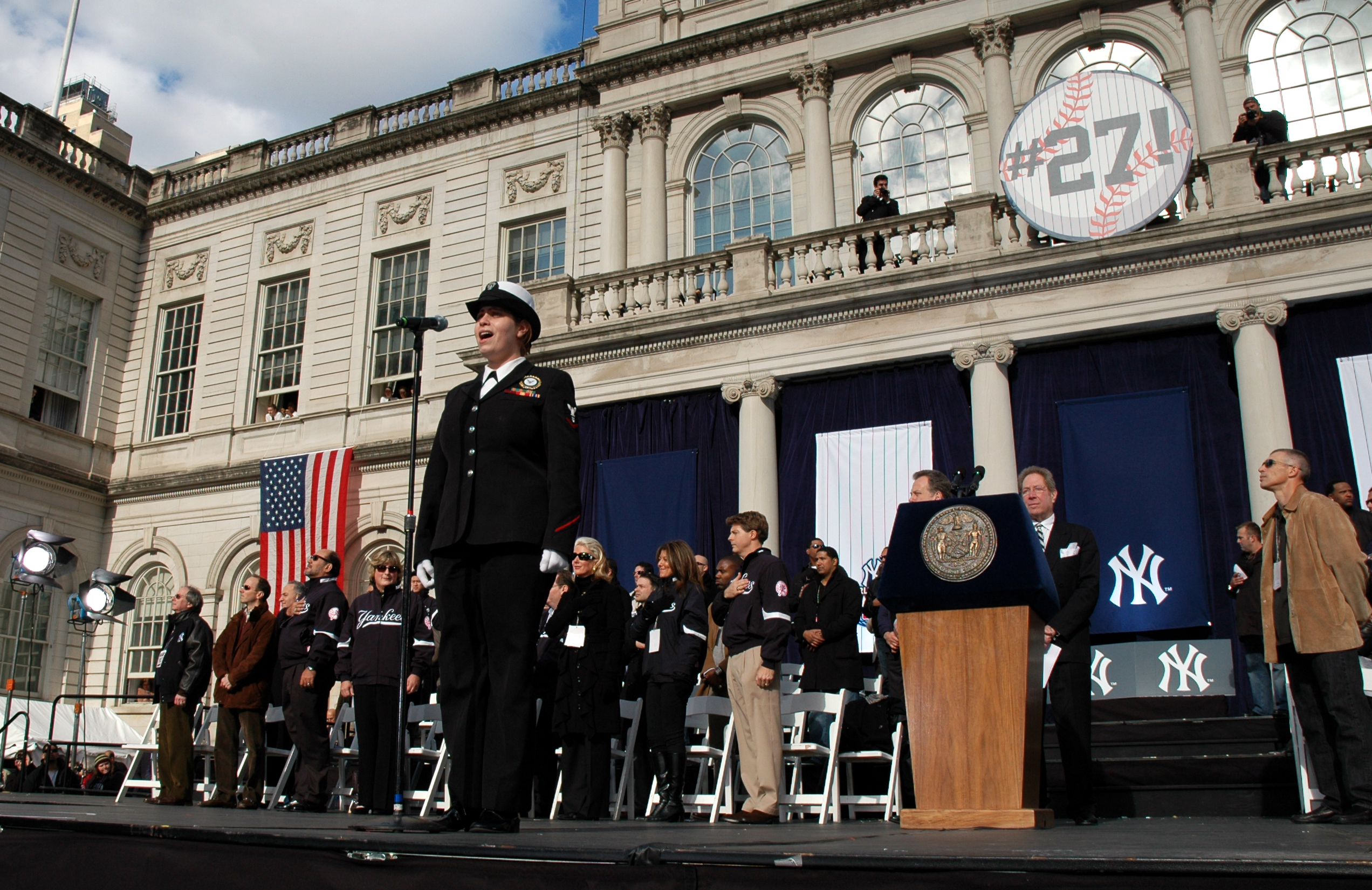 NEW YORK (Nov. 6, 2009) Musician 3rd Class Laura Carey sings the National Anthem at the conclusion of the New York Yankees ticker-tape parade at New York City Hall. (U.S. Navy photo by Mass Communication Specialist 1st Class Keith L. Darby/Released)